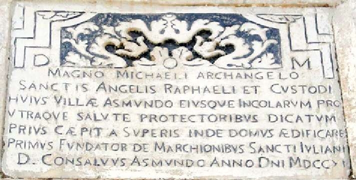 Chiesa di San Michele Arcangelo, Villasmundo